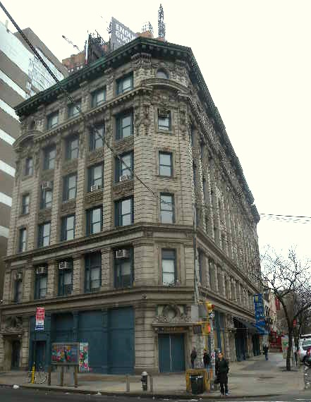 Looking south across Canal Street and along West Broadway at Canal Room on a cloudy morning.